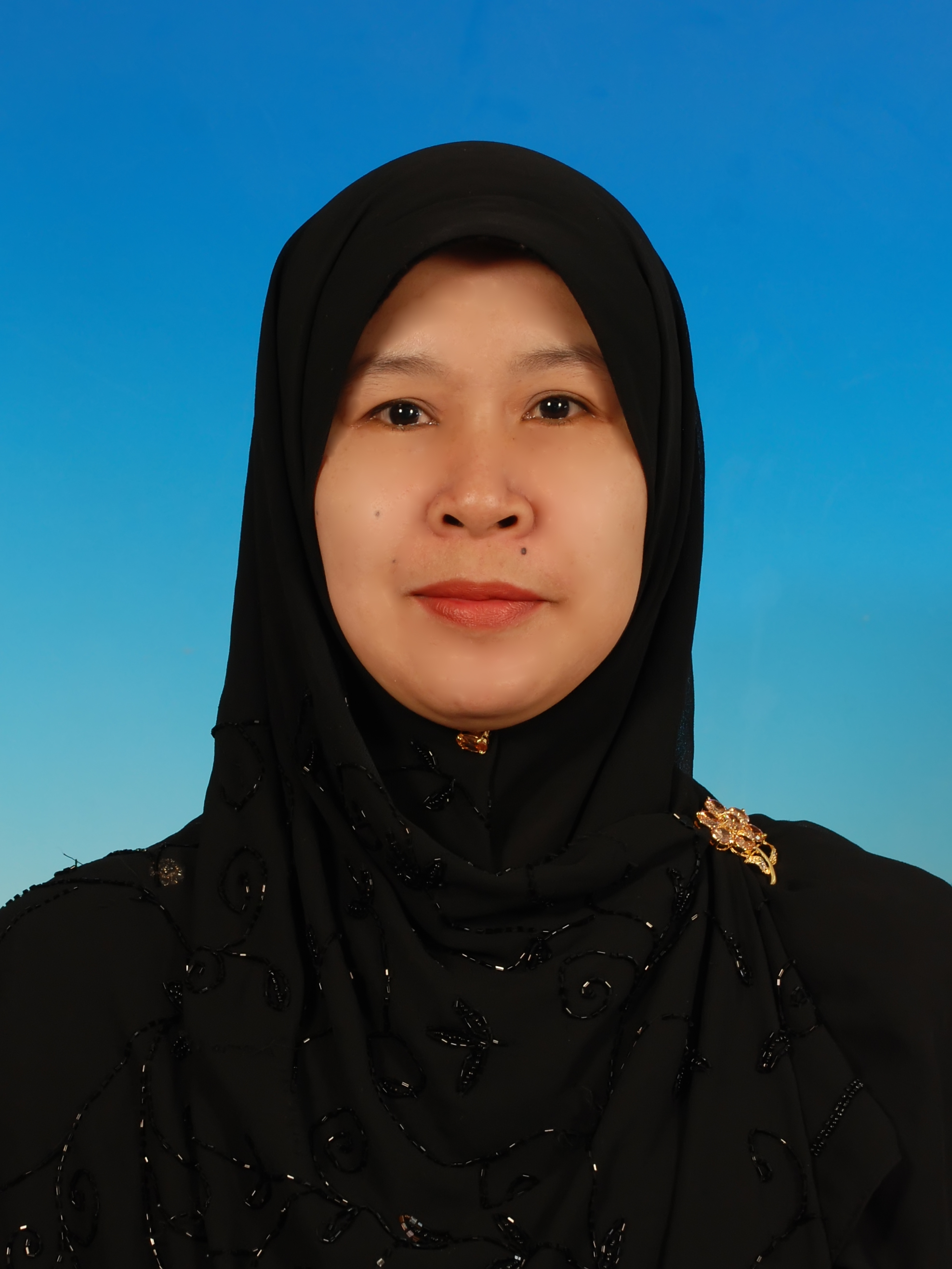 Lecturer in IIUM